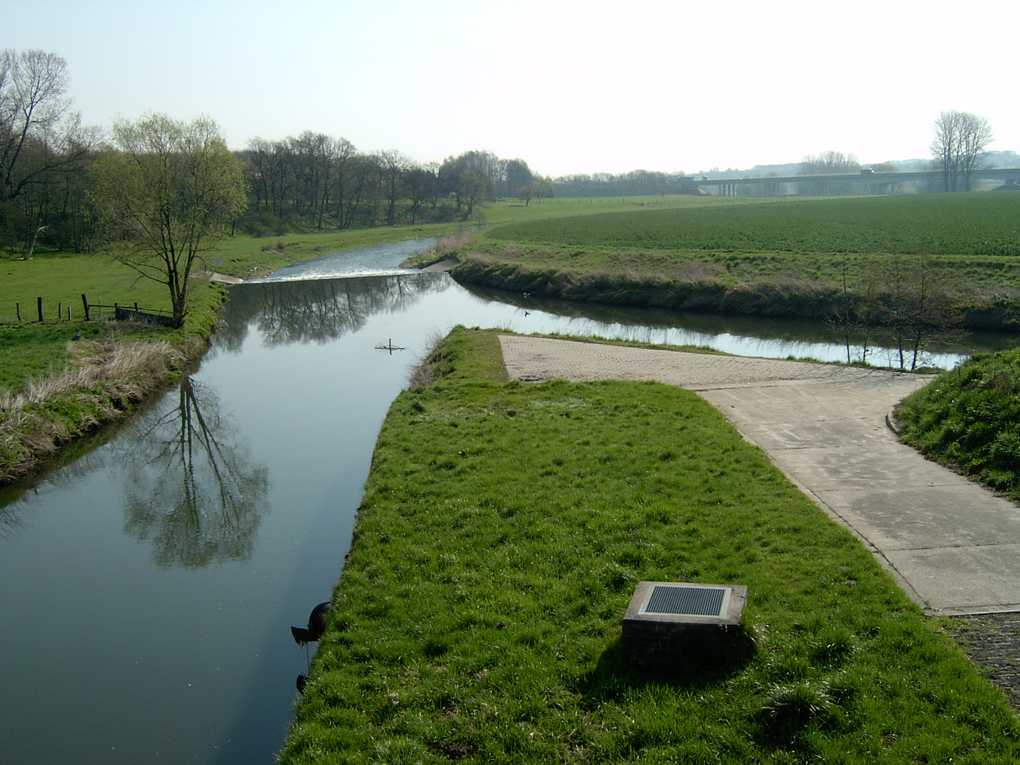 River Else and Werre confluence in town of Kirchlengern, District of Herford, North Rhine-Westphalia, Germany.